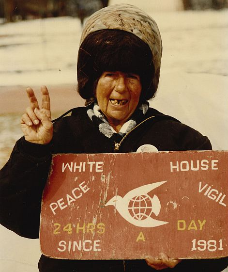 Famed whitehouse protester 1998